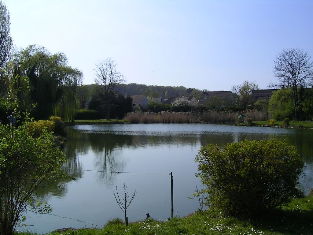 Etang du Moulin, rue de Courtry Photo personnelle (own work) de Marianna